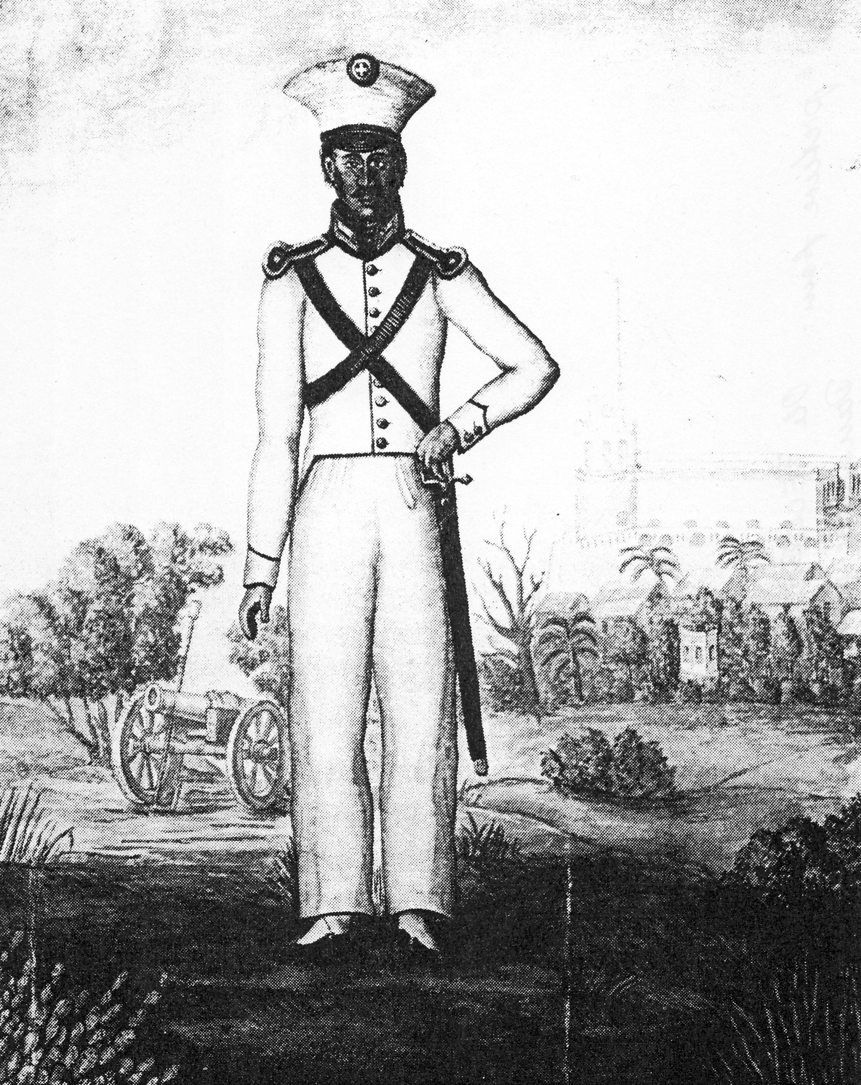 Mulatto as constable in the Guinea artillery white canvas uniform.